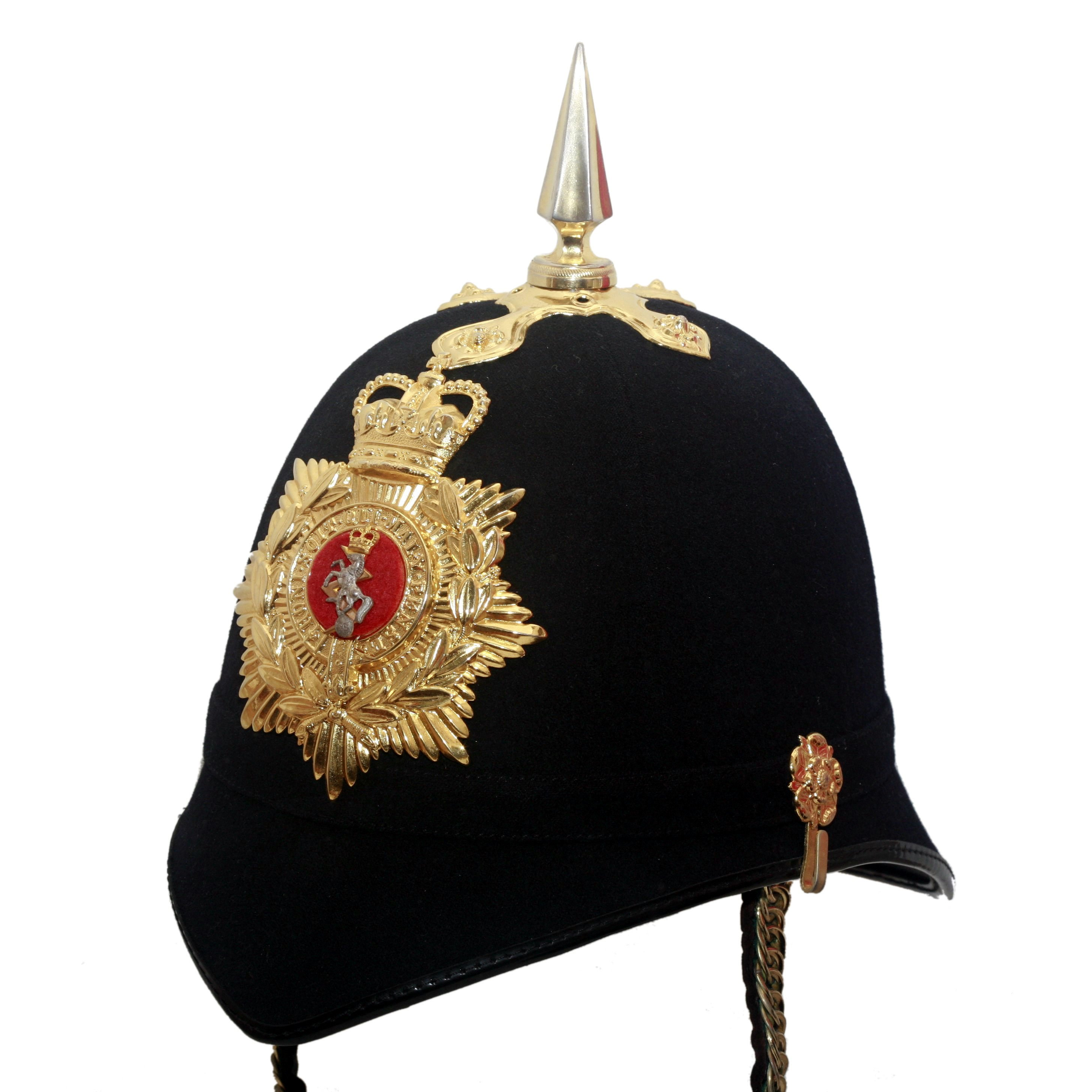 Home service helmet of the Band of the Corps of Royal Electrical and Mechanical Engineers Official Website, 1985 (c)